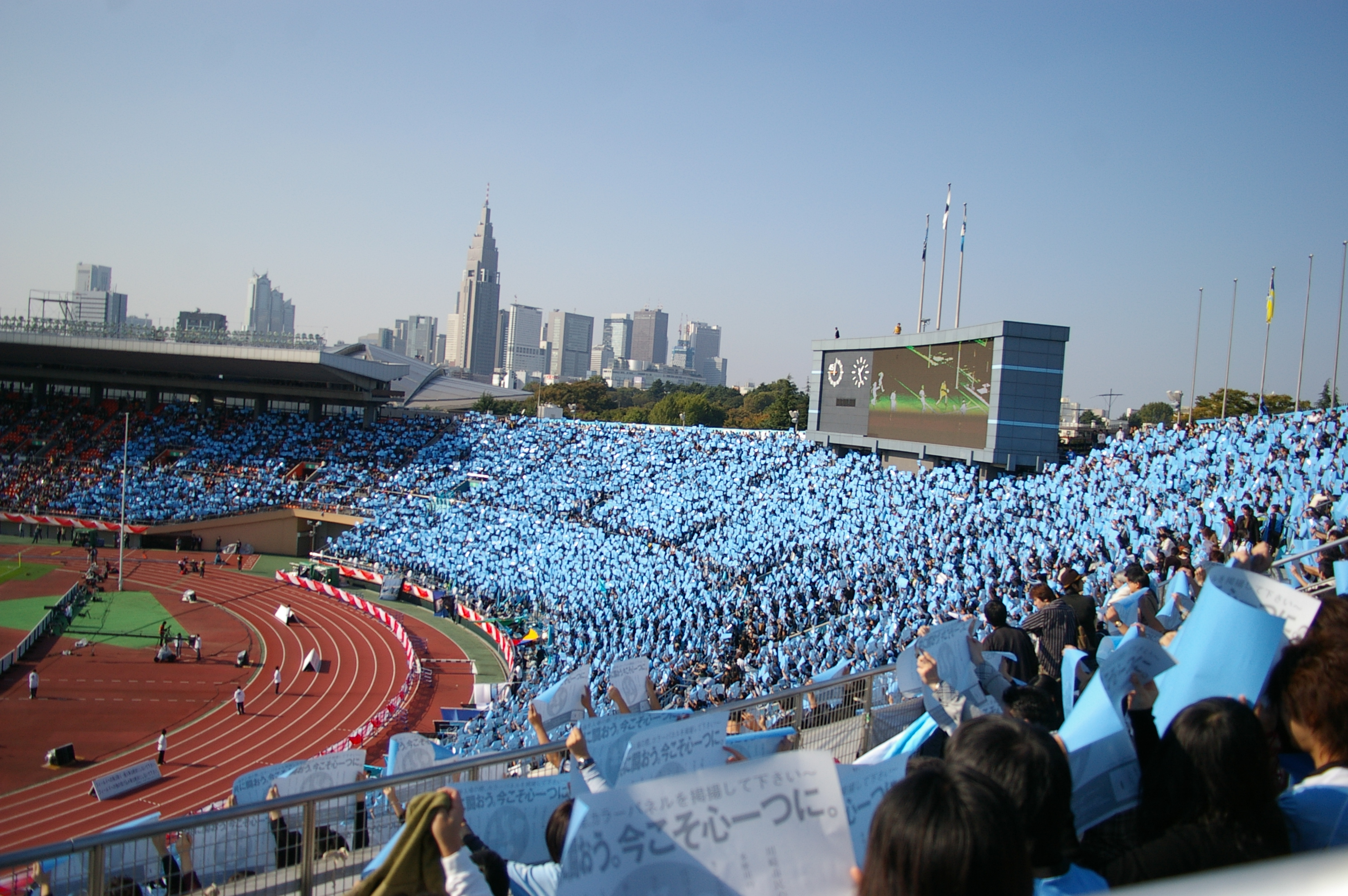 Nabisco Final 2007